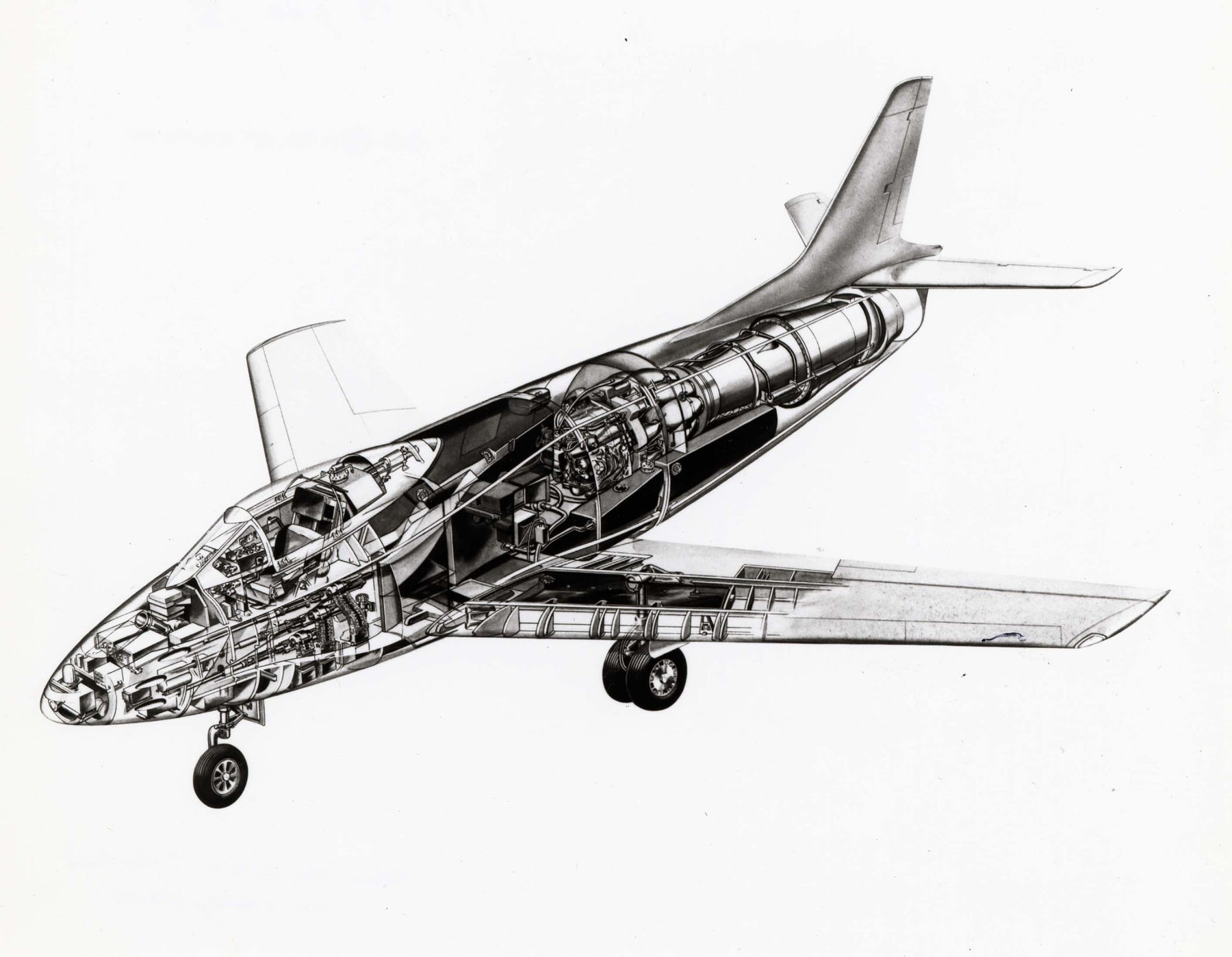 Cut-away drawing of the North American YF-93A.